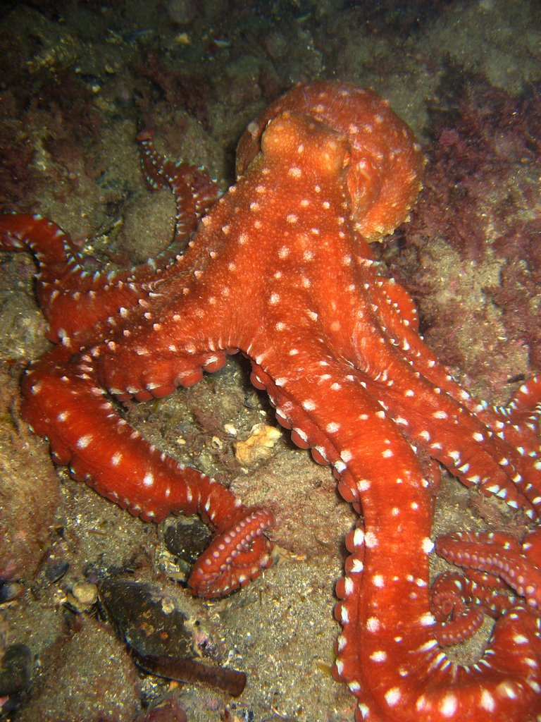 Callistoctopus macropus (Risso, 1826) (synonym: Octopus macropus)